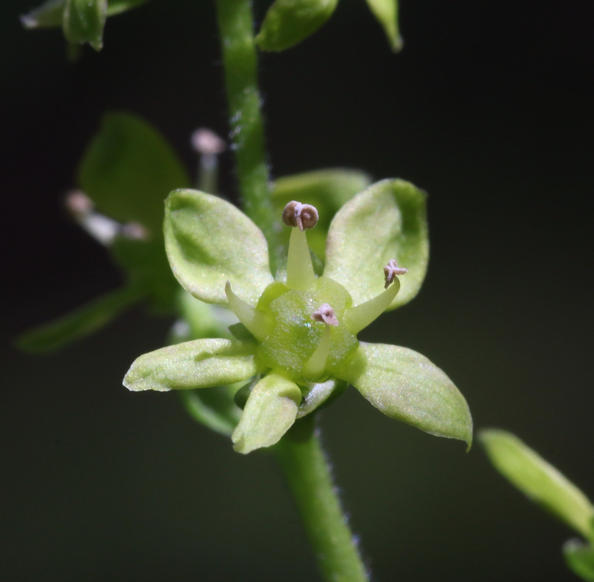 Male flower of Orixa japonica